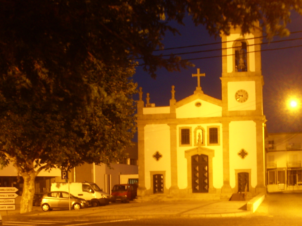 Senhora das Neves Parish Church of Aver-o-Mar